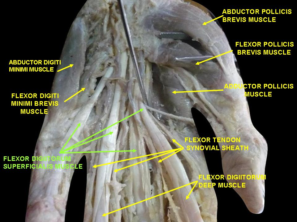 Anatomical dissections